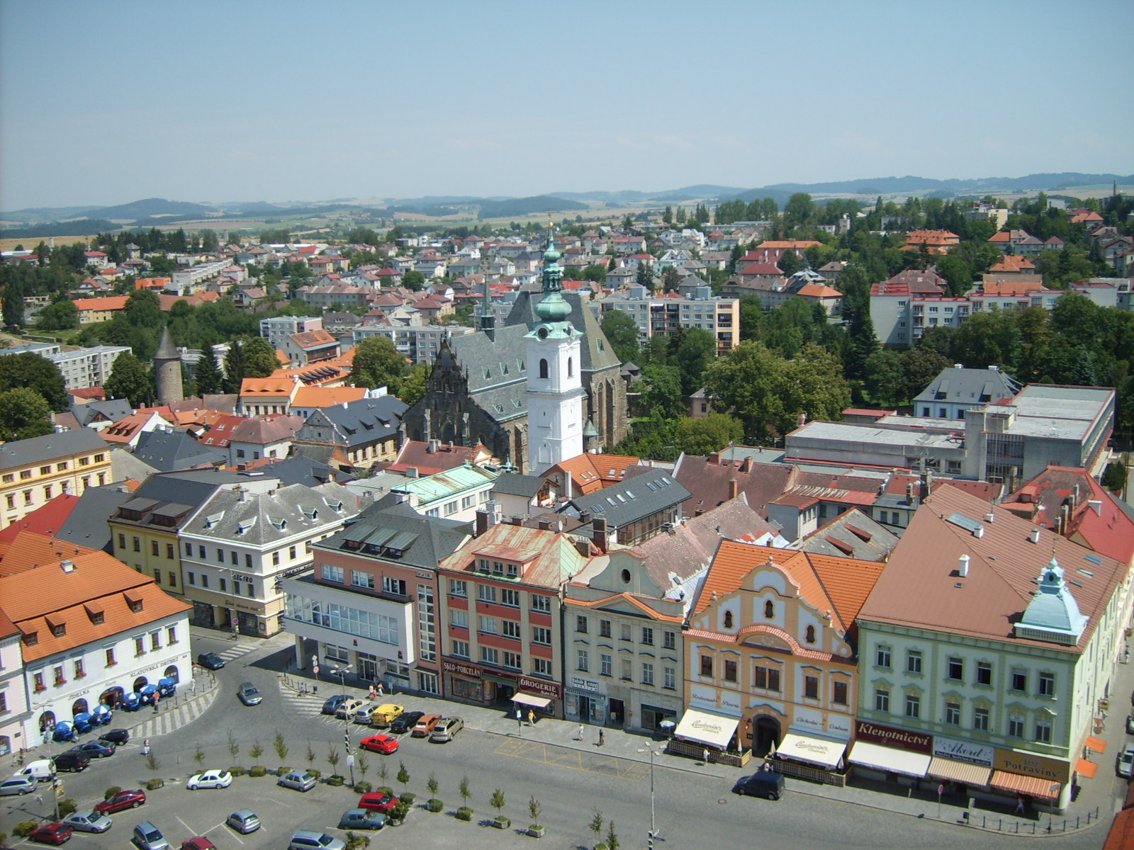 view from the city hall tower in klatovy